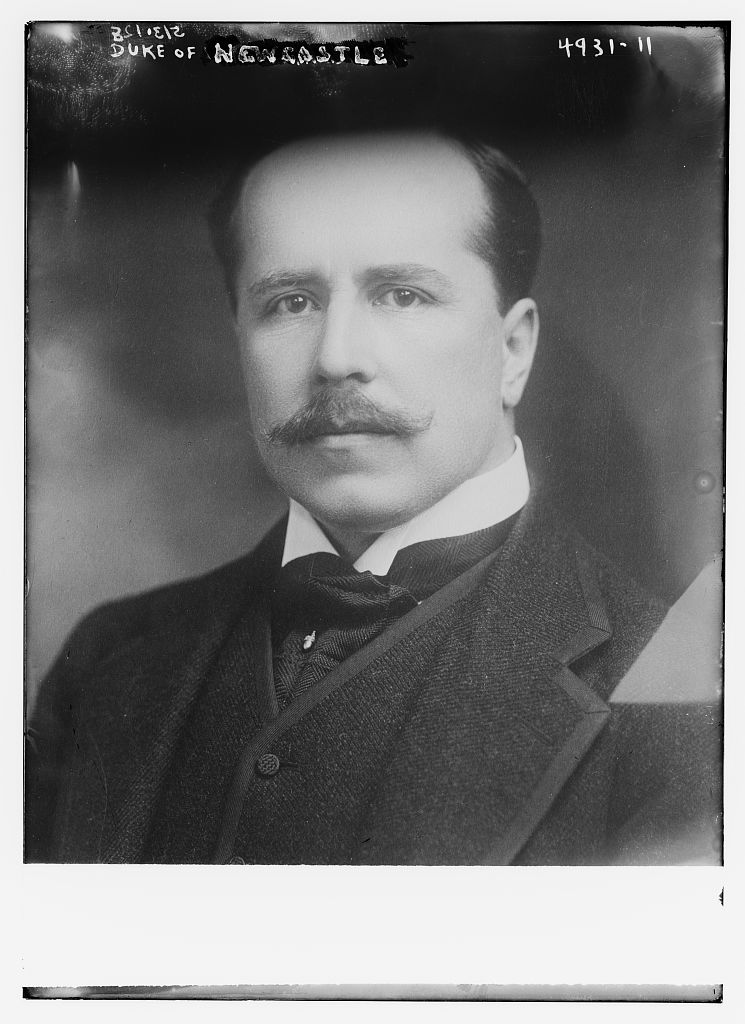 Henry Francis Hope Pelham-Clinton-Hope, 8th Duke of Newcastle-under-Lyne circa 1919